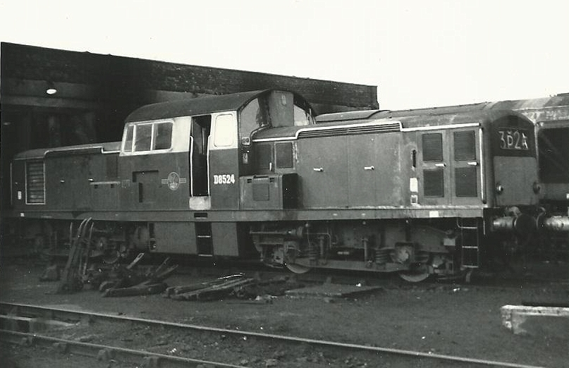 Clayton Type 1 (later Class 17) 900hp Bo-Bo No.D8524 in green livery with small yellow warning panels at Carnforth MPD, 08/68. It is almost unblieveble that BR hadn't learned it's lesson from ordering into production some of the unreliable Pilot Scheme designs without waiting for experience with them that they should have stopped production of the most reliable early diesels, the conservatively-designed English Electric Type 1 (Class 20), for a more advanced centre cab Type 1, the Class 17's, straight off the drawing board - with disasterous consequences. Probably the most unreliable diesel design BR ever had (and that's saying something!). Alhough built between 1962 and 1965, all had been withdrawn by 1971 (though one was sold into industrial use and somehow lasted until 1982 when it was bought for preservation). Some had as short a life as 4-5 years! And even then, many spent much of their short lives in storage, such was the Class 17's unpopularity. It is telling that in 1964 BR re-adopted the Class 20 as their standard Type 1 and it re-entered production. Scanned photograph taken with a Kowa SET camera.